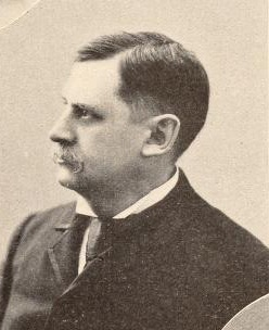 Portrait of New York state superintendent of insurance Francis Hendricks